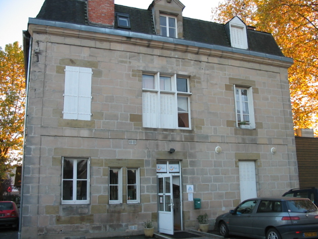 Youth hostel of Brive-la-Gaillarde (South-Western France)